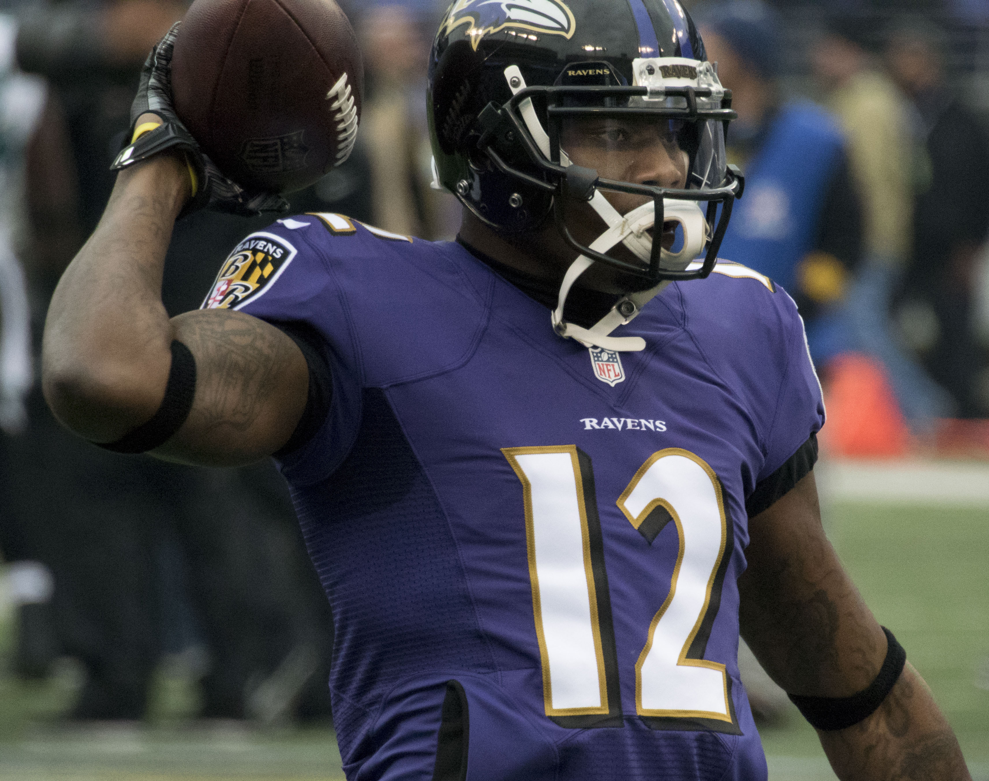 Jaguars at Ravens 12/14/14